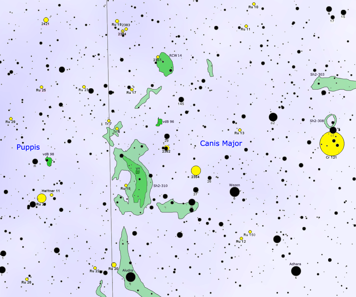 Map of Sh2-310 molecular cloud